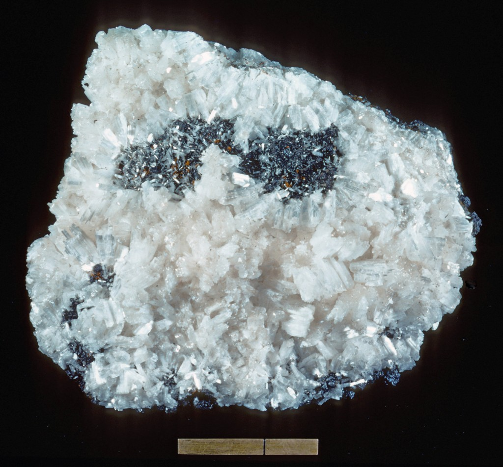 Locality: Keno Hill, Mayo Mining District, Yukon Territory, Canada Cerussite. The specimen is from the collection of the Royal Ontario Museum in Toronto, Canada #M22077. The scale at the bottom of the image is an inch with a rule at one cm.